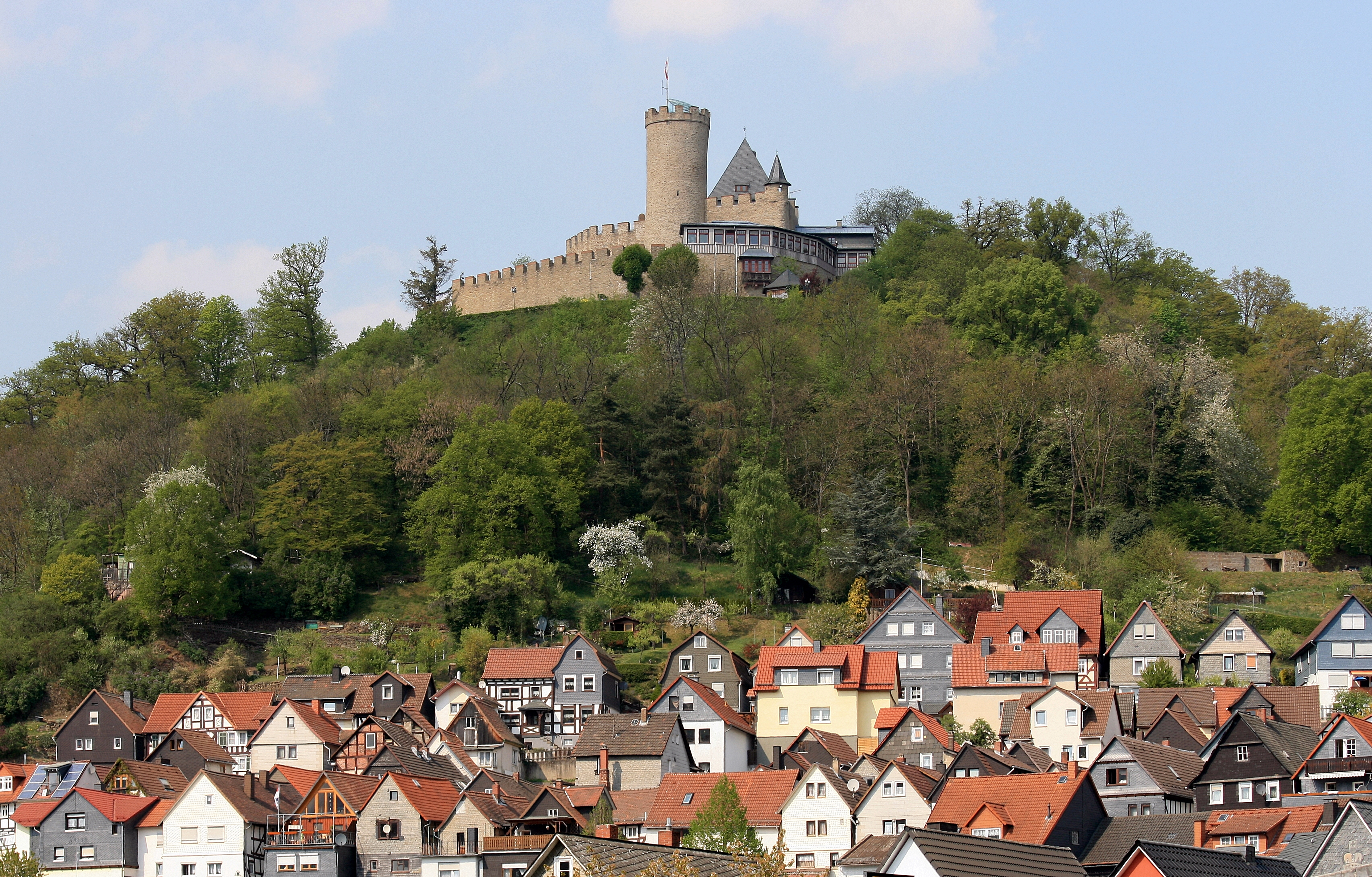 Germany, Hesse, Biedenkopf: Biedenkopf castle with part of the old town.